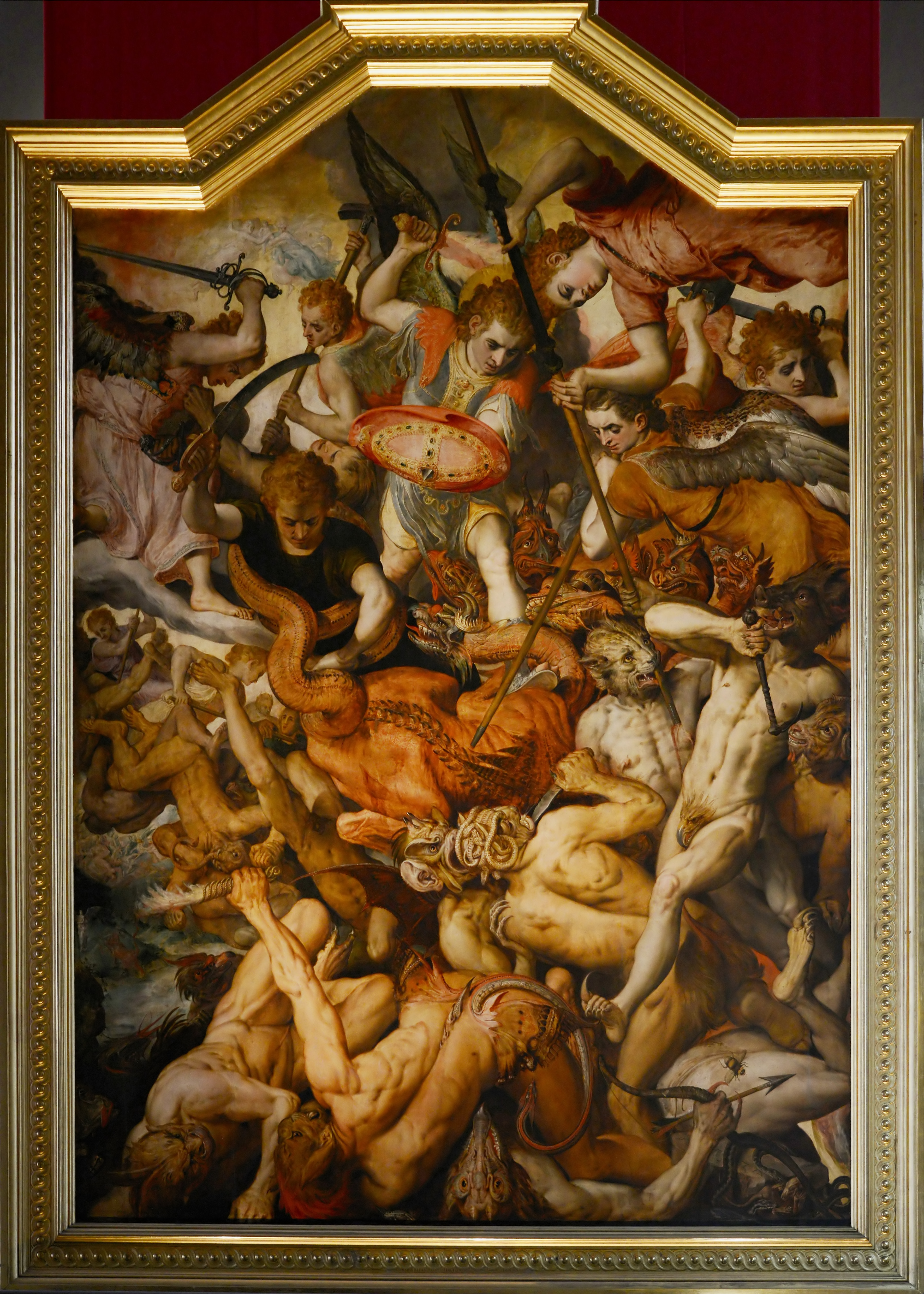 The Fall of Rebelious Angels, by Frans Floris (1554). Cathedral of Our Lady, Antwerp